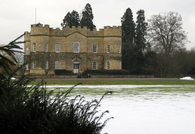 Fillingham Castle View looking North. The house was built in approx 1770 on a raised platform. The house itself is not in this square, but this aspect butts right up to the boundary.